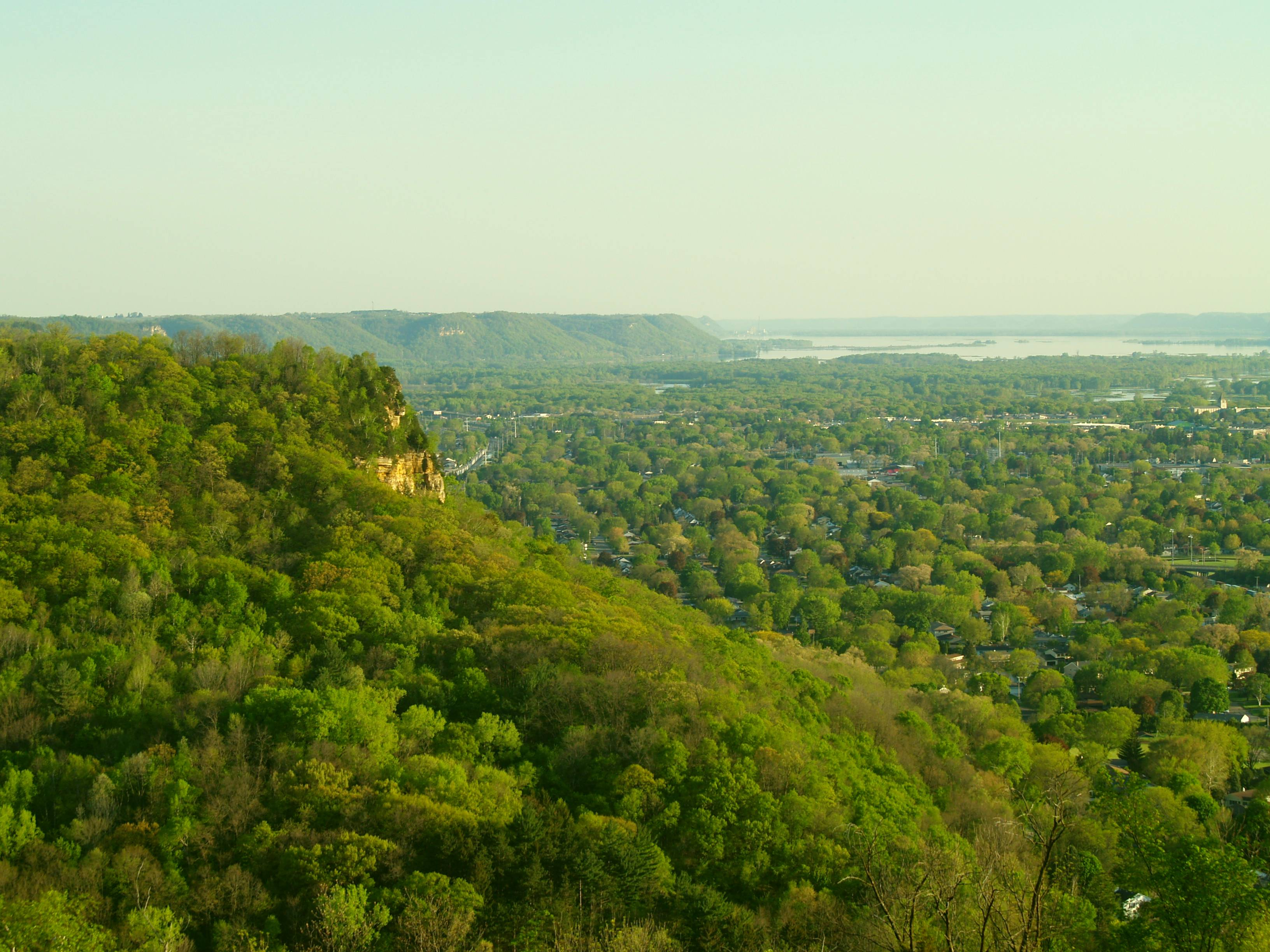 Overhead Site